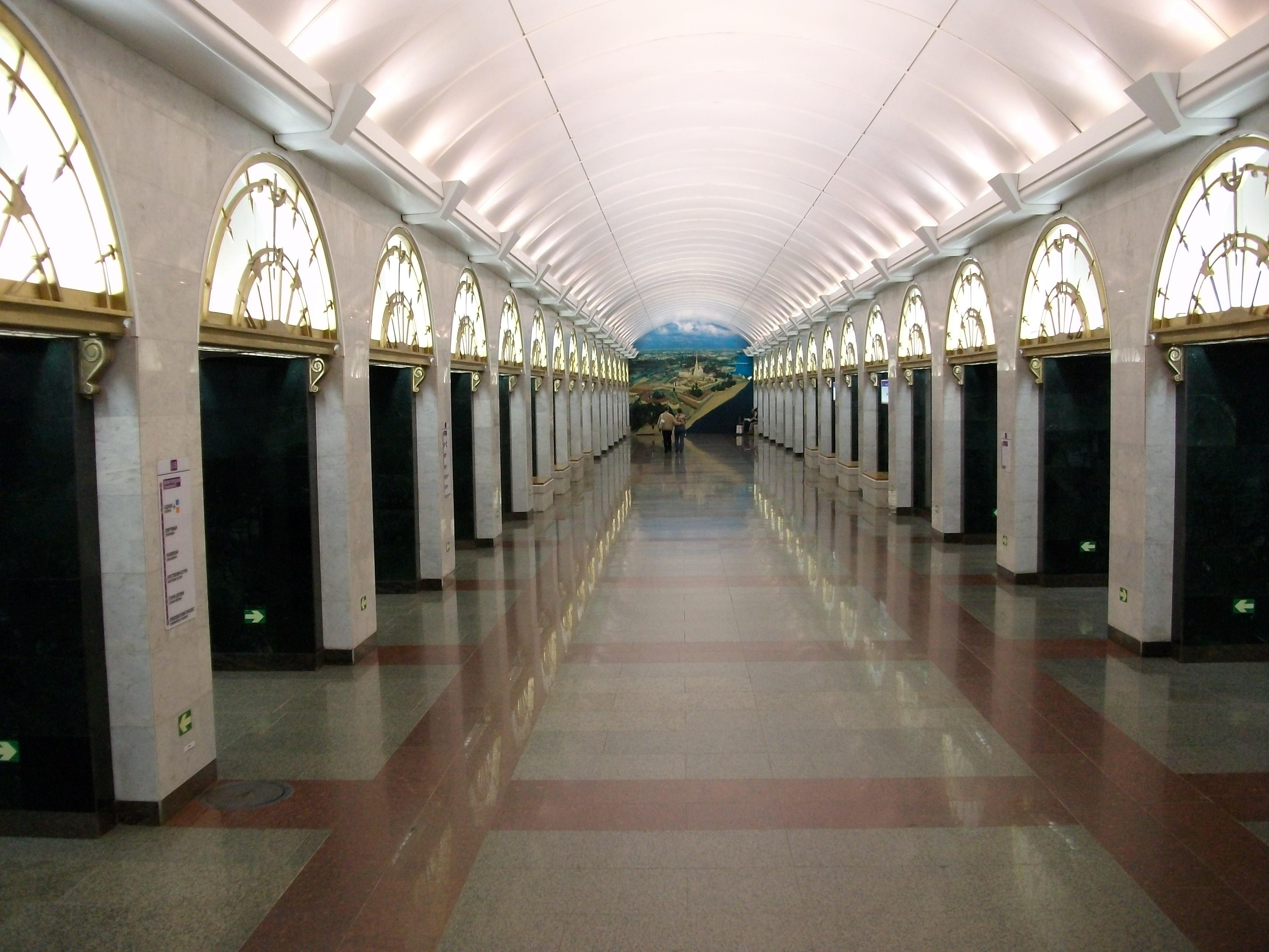 Zvenigorodskaya station, Frunzensko-Primorskaya Line, Saint Petersburg Metro, Russia